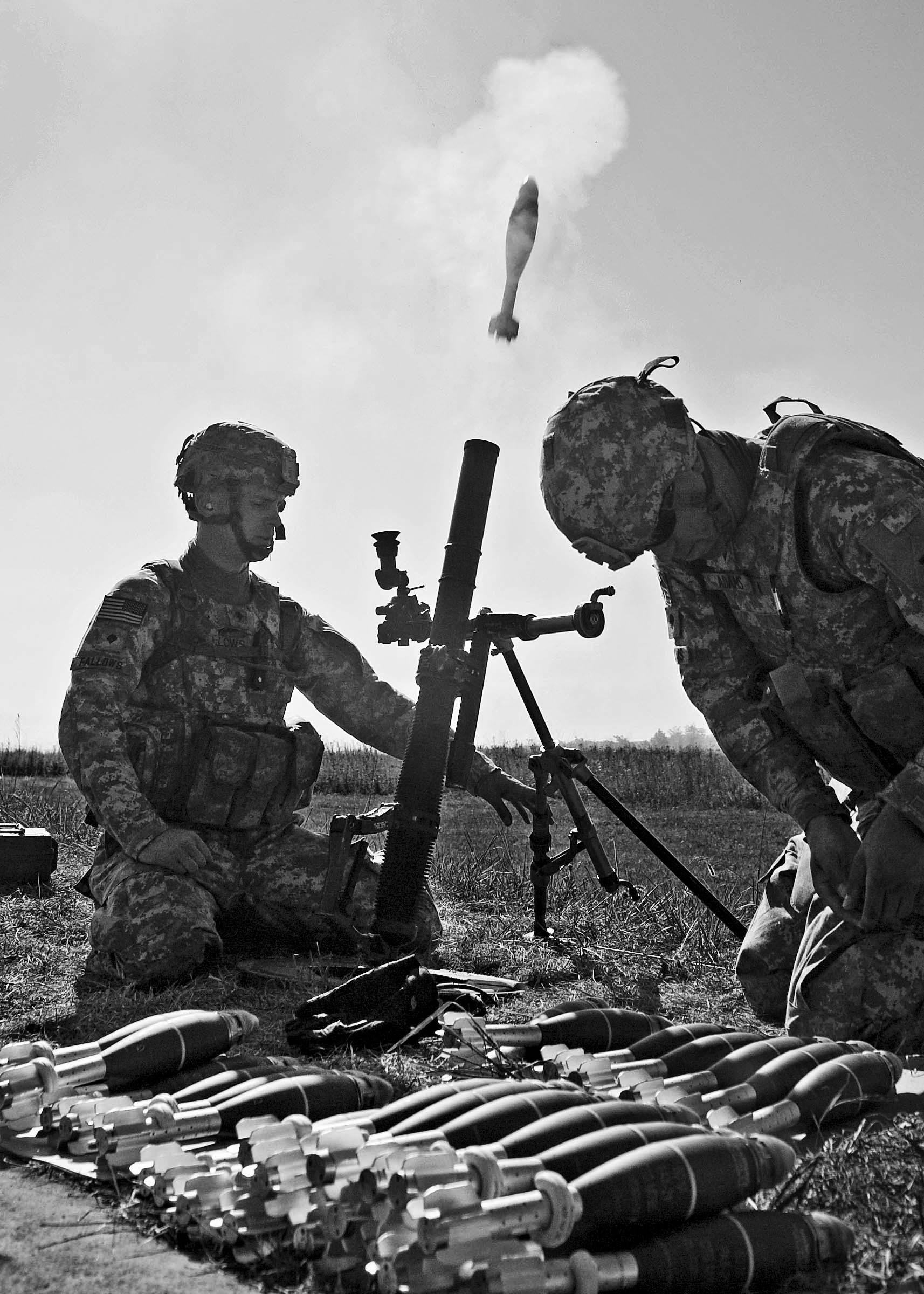 A 60mm Mortar is launched by Soldiers of 1st Battalion, 181st Infantry Battalion at fixed targets at Camp Atterbury Joint Maneuver Training Center in central Indiana Aug. 31, part of mobilization training for their upcoming deployment to Afghanistan. The Massachusetts National Guard unit is made up of roughly 600 soldiers, Massachusetts' largest troop deployment since World War II.